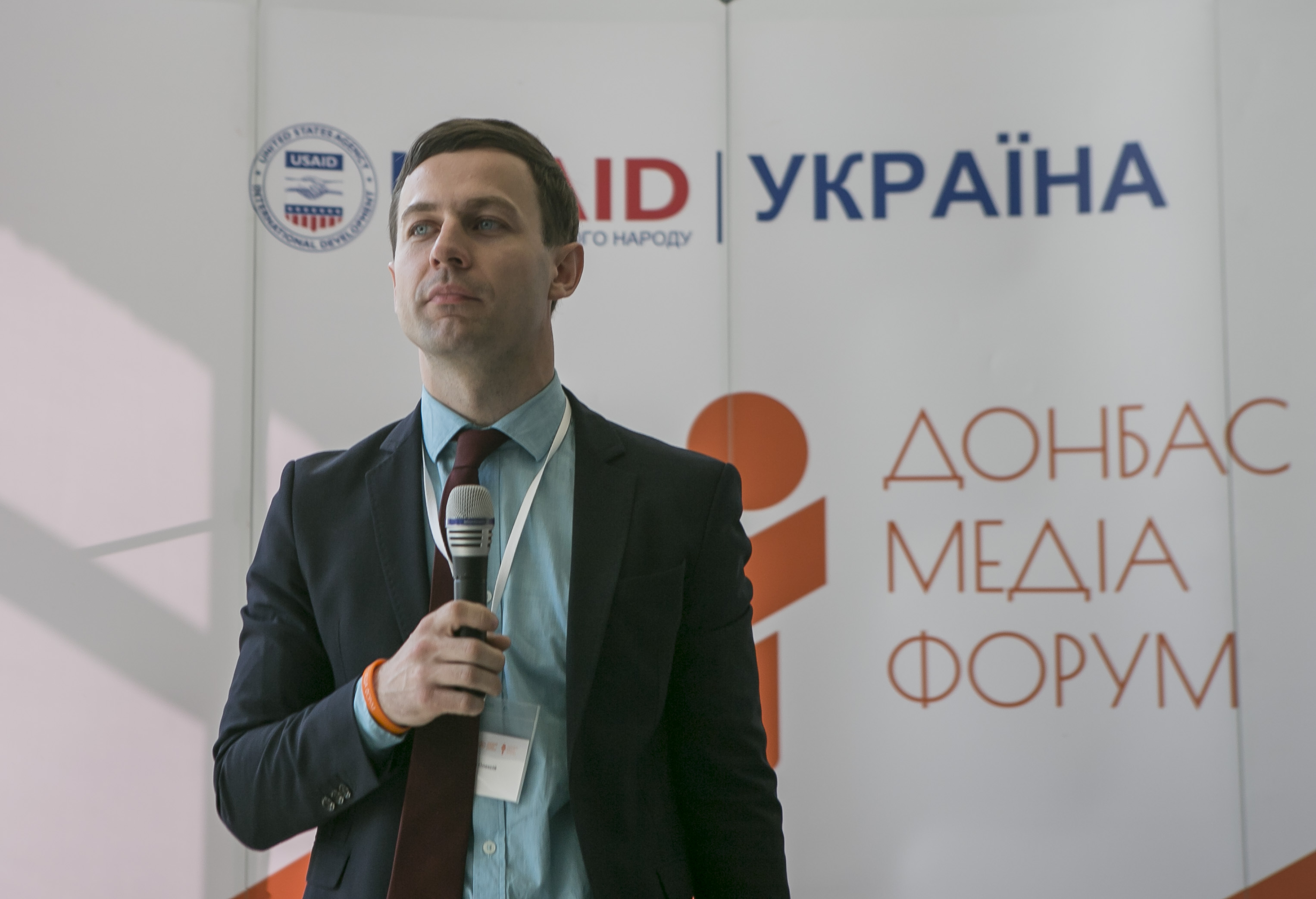 Donbas Media Forum, Kyiv, June 6, 2015